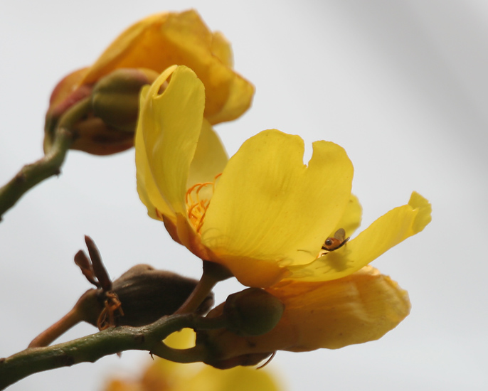 Yellow Silk Cotton Cochlospermum religiosum in Kolkata, West Bengal, India.